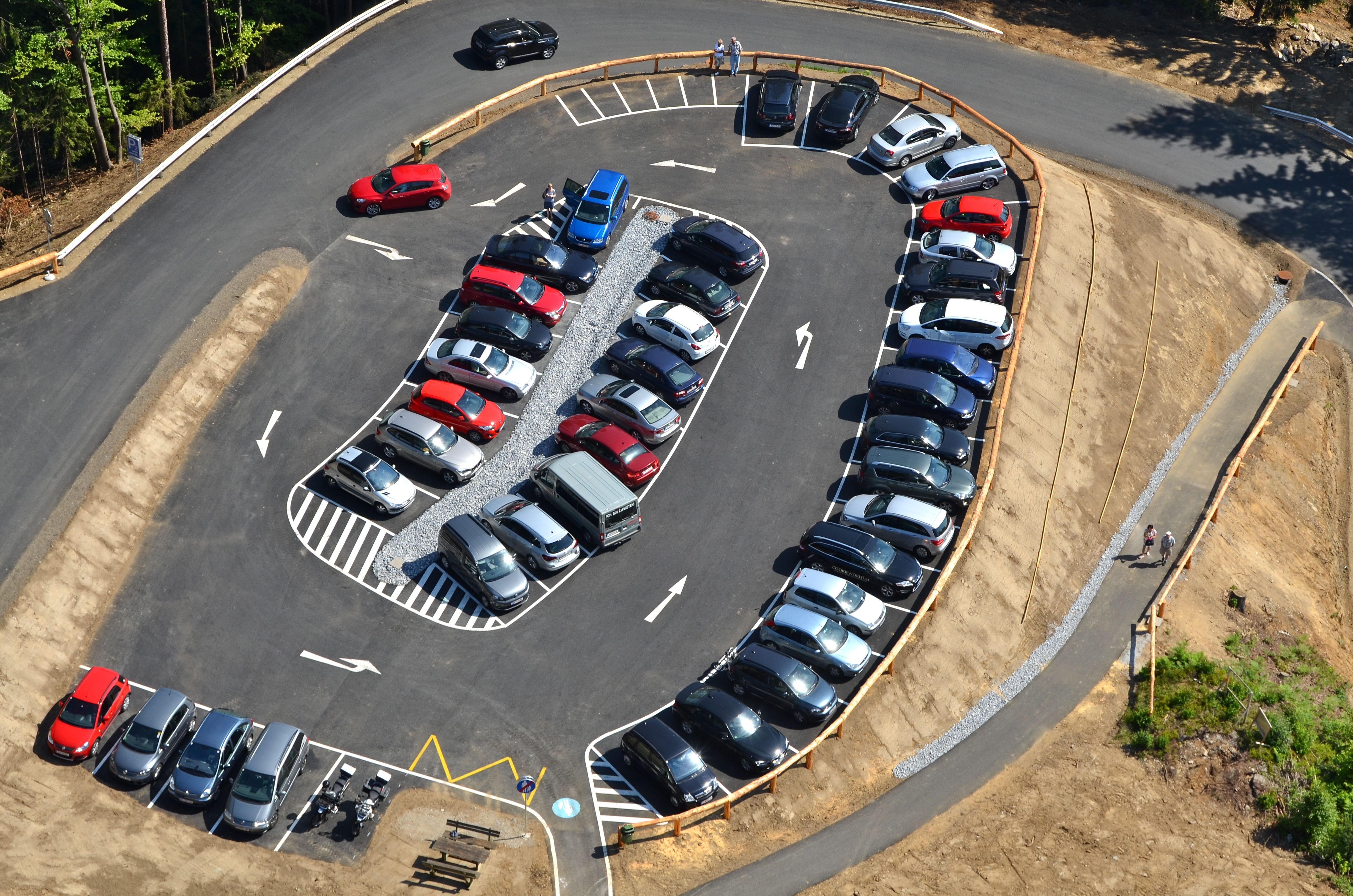 Parking lot on top of the Pyramid ballon (Pyramidenkogel), municipality Keutschach am See, district Klagenfurt Land, Carinthia, Austria, EU